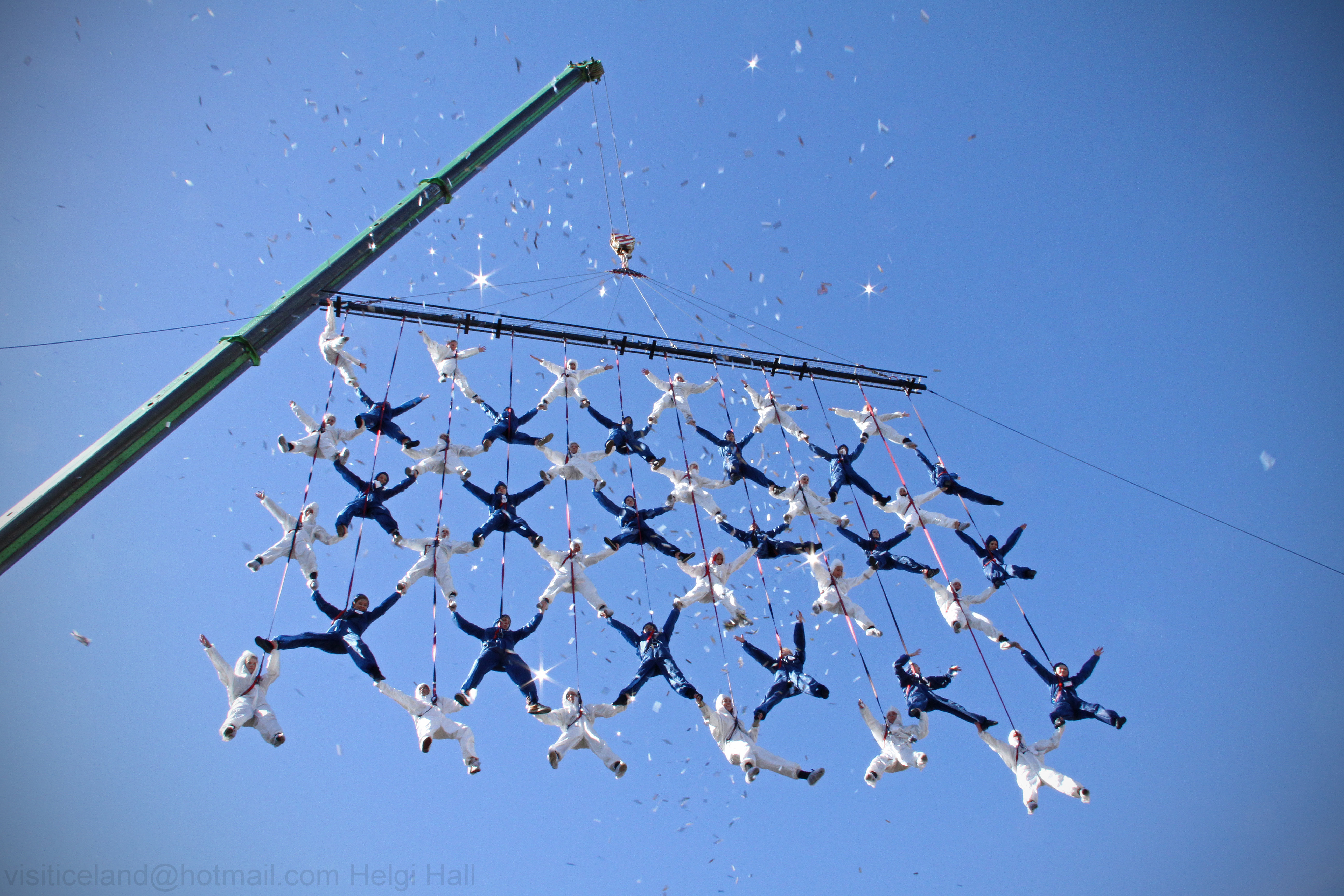 World famous Spanish street theatre group performing on the Opening Weekend of the Festival. La Fura dels Baus is a Spanish company which is highly recognized worldwide for its outstanding performances in theatre, opera, large-scale performances (in- and outdoors) and film and its unique language, style and aesthetic. Outdoor performance for the whole family will be performed in Reykjavik City Centre on the opening weekend of the Festival, on May 21st. The performance is highly ambitious and on a huge scale relying on many artists and technicians. There will be around 60 participants all together, both from Fura dels Baus as well as local volunteers. This will undoubtedly be a breathtaking event that the audience will not forget easily. La Fura started as a street theater group in 1979 acting in different towns and cities around Catalonia and this was a time when the group was experimenting with many of the aesthetic features that would later form their distinct theatrical language.